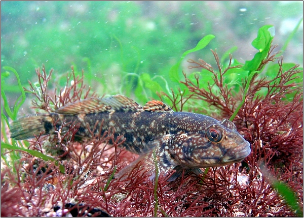 1=Ponticola cephalargoides from the Black Sea, Romania